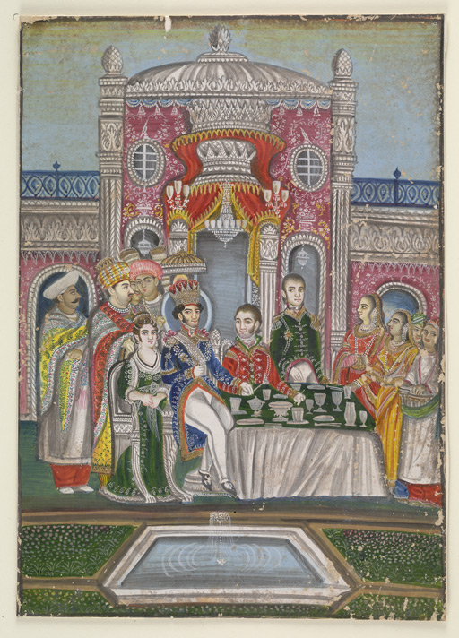 Goache painting of Nasir al-Din Haidar (King of Oudh 1827-37) by an anonymous artist working in the Lucknow style in c.1831. Inscribed on the back in pencil: 'All the drawings in this Book were found by me in the 'Kaiser Bagh', a Royal Palace in Lucknow in the begining of -/58 - after the Capture - I.G.' Nasir al-Din Haidar is seen seated at a table with a British officer on his left and an English lady on his right; the King's hand rests on the Englishman's hand. The table is spread with glasses and dishes. There is a group of Indian ministers standing on the left and two dancing-girls and two musicians standing on the right. In the background is an elaborately stuccoed doorway with chandeliers and glass shades; in the foreground a fountain and flower beds. The British officer is most likely Lord Bentinck, Governor-General and Commander-in-Chief (1828-35). He and his wife visited Nasir al-Din in April 1831. However, Bentinck was an old man in 1831, and this man is painted as much younger. Modaunt Ricketts, Resident in Lucknow (1822-30) is most likely the gentleman standing behind the table.